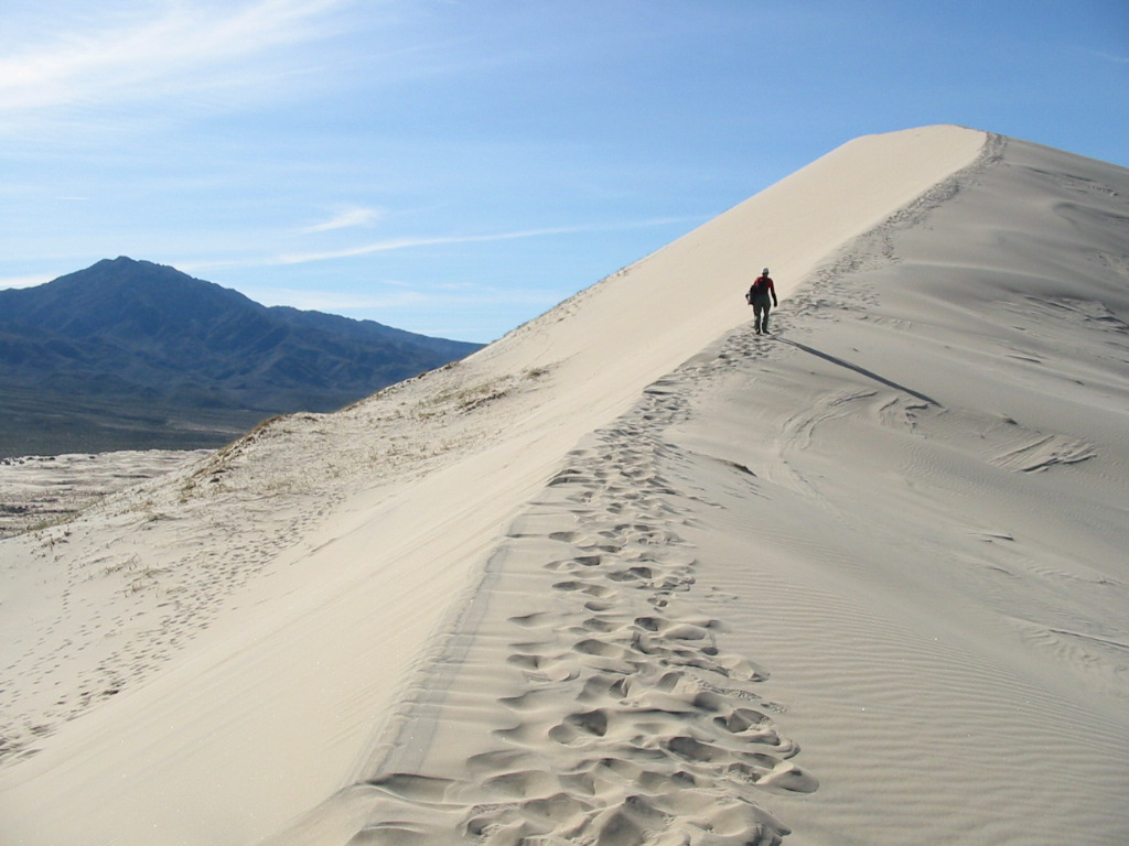 Photograph taken on the ridge of Kelso Dunes while hiking to the top.